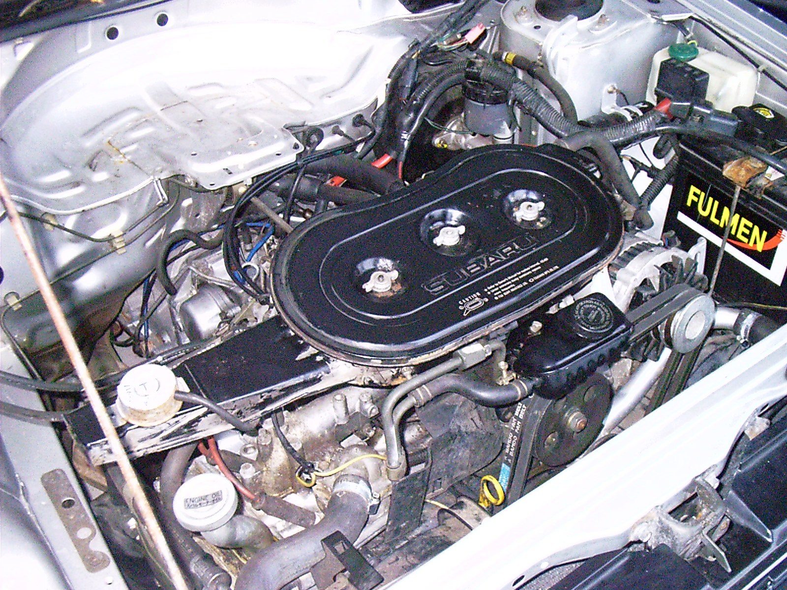 subaru 1.8 L from European L-series